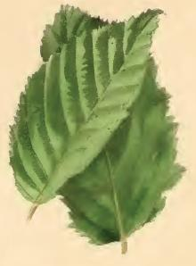 Stainton’s Natural History of the Tineina (1855–1873): Ypsolopha ustella two leaves of hornbeam fastened together by larva